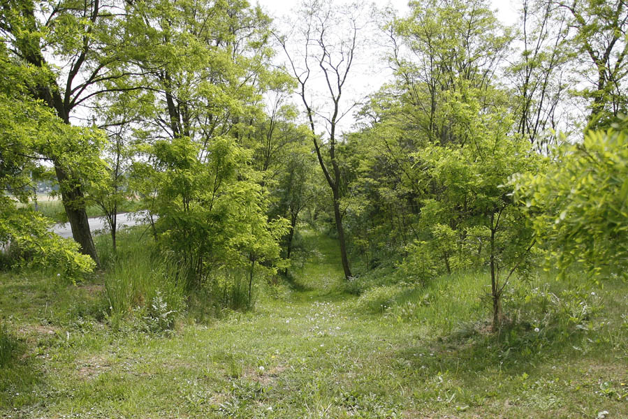 Devil´s furrow, north to Kourim town, at the road nr.334